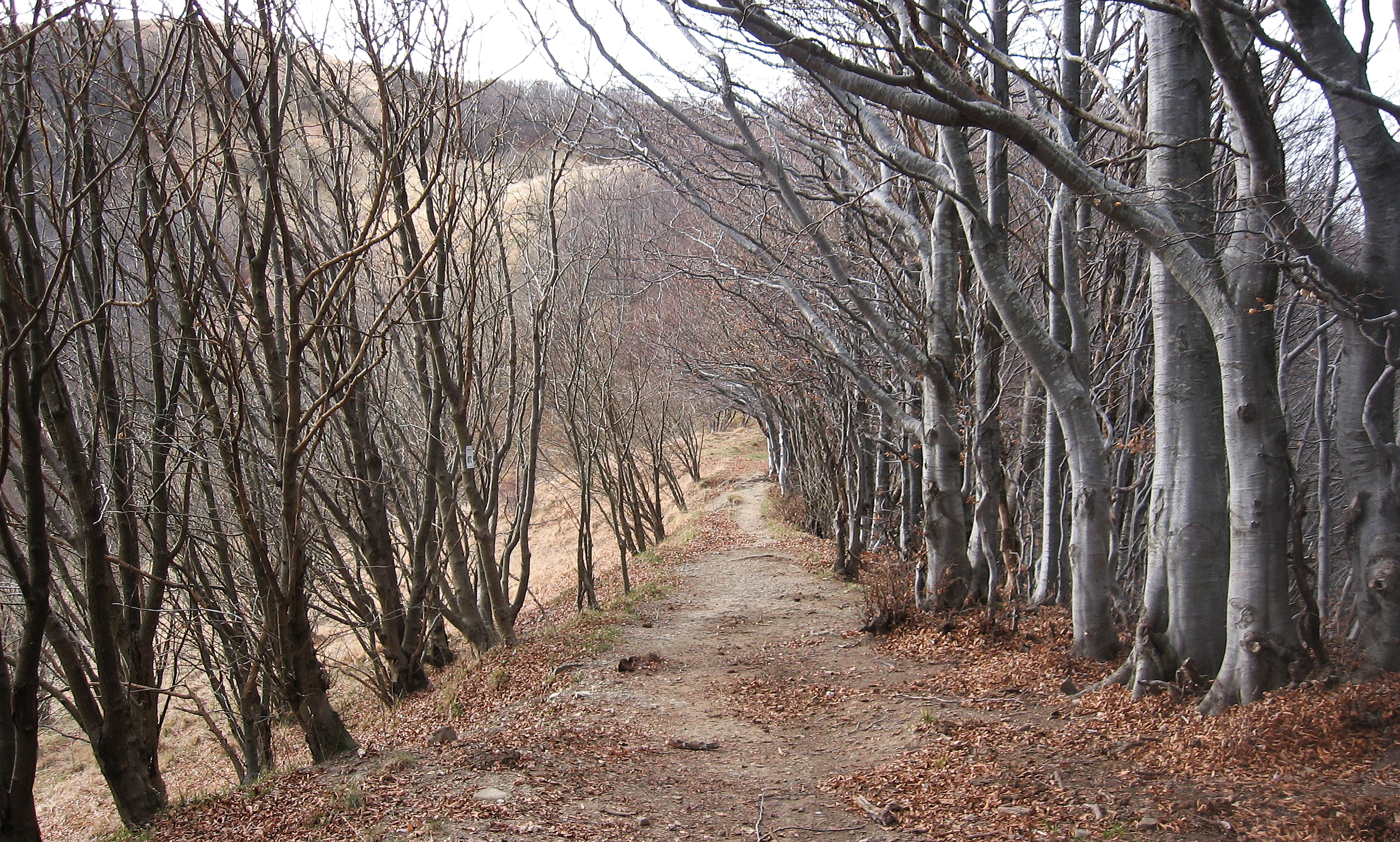 Beech trees near Monte Antola (Ligurian Apennine, Italy)